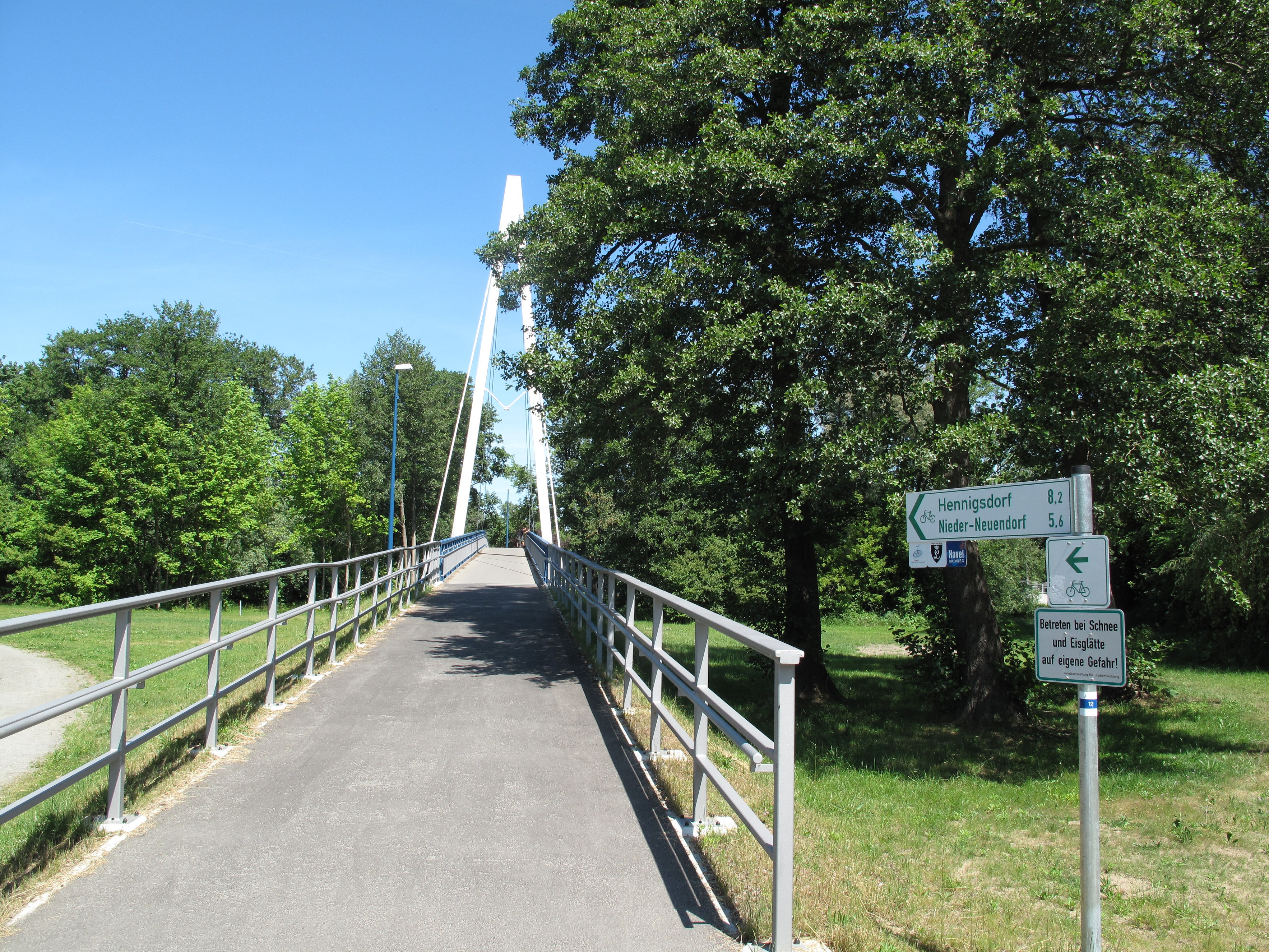 The Aalemannkanalbrücke (Aalemann canal bridge) spans the Aalemannkanal and is situated in Berlin, Borough Spandau, locality Hakenfelde. The foot- and bikeway bridge is part of the Berlin-Copenhagen Cycle Route and of the Havel Cycle Route (german: Havelradweg). The barrier-free cable-stayed bridge was opened in 2010 and has a length of 68 meters. The construction as a whole, inclusive the ramps, has a length of 157 meters.